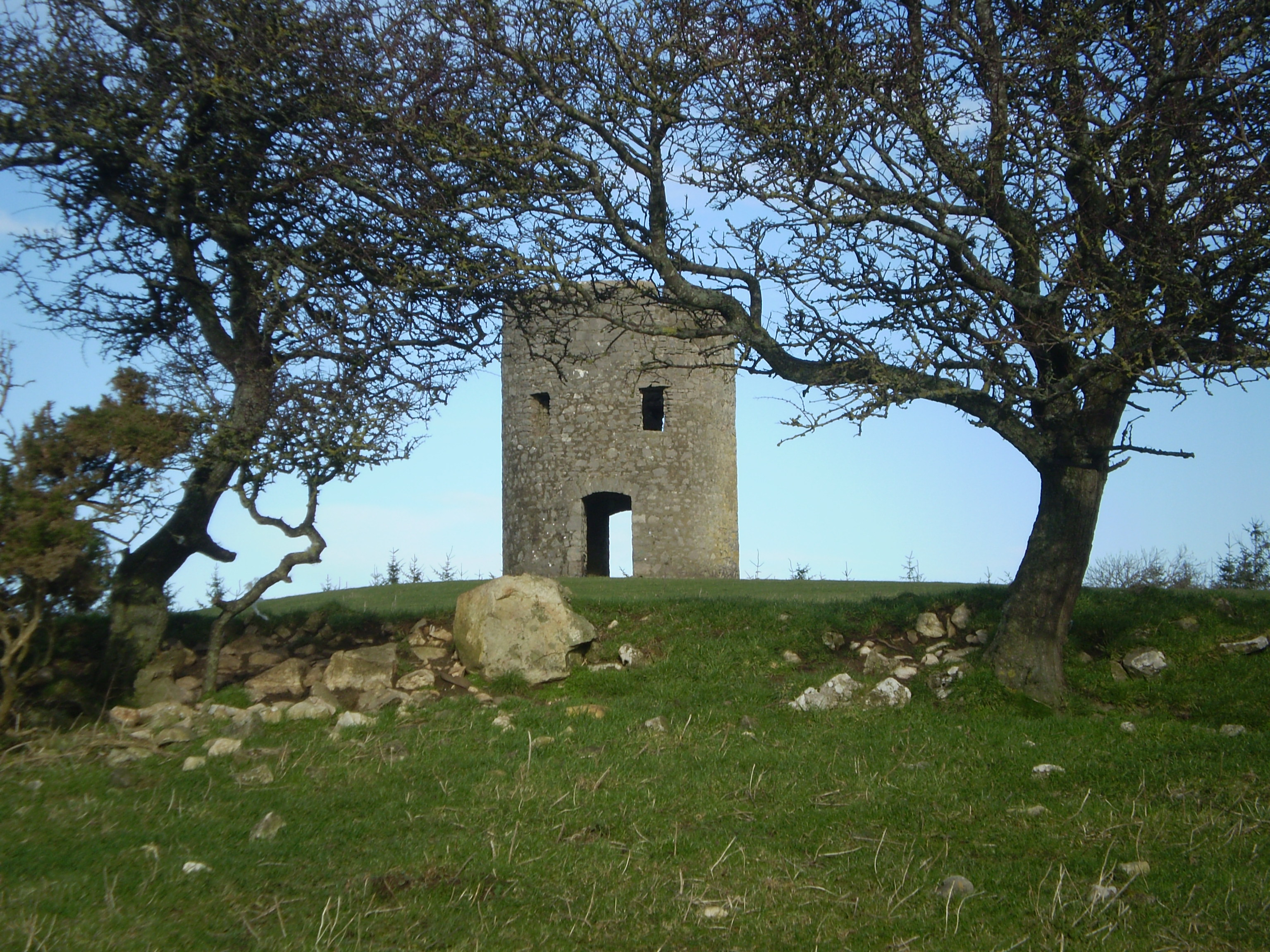 tower on tower hill abergele wales